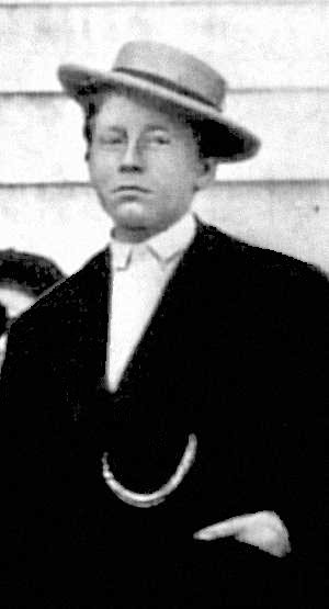 Knut Hamsun as teenager at 14 (1874) in Tranøy